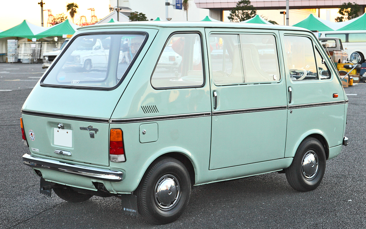 4th generation Suzuki Carry Van (L40V, 1969-1972)